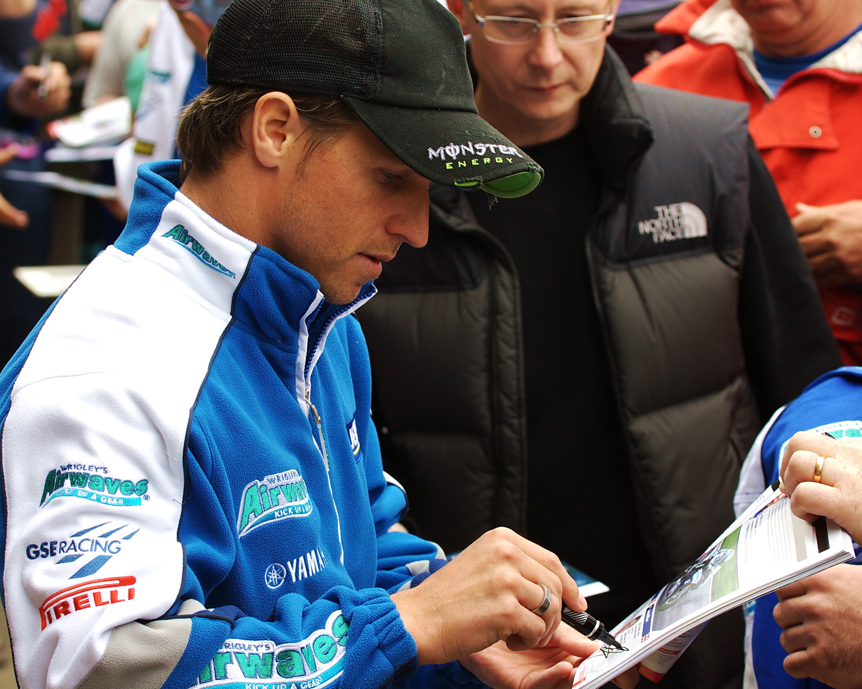 James Ellison, from the Airwaves Yamaha Team, signing autographs